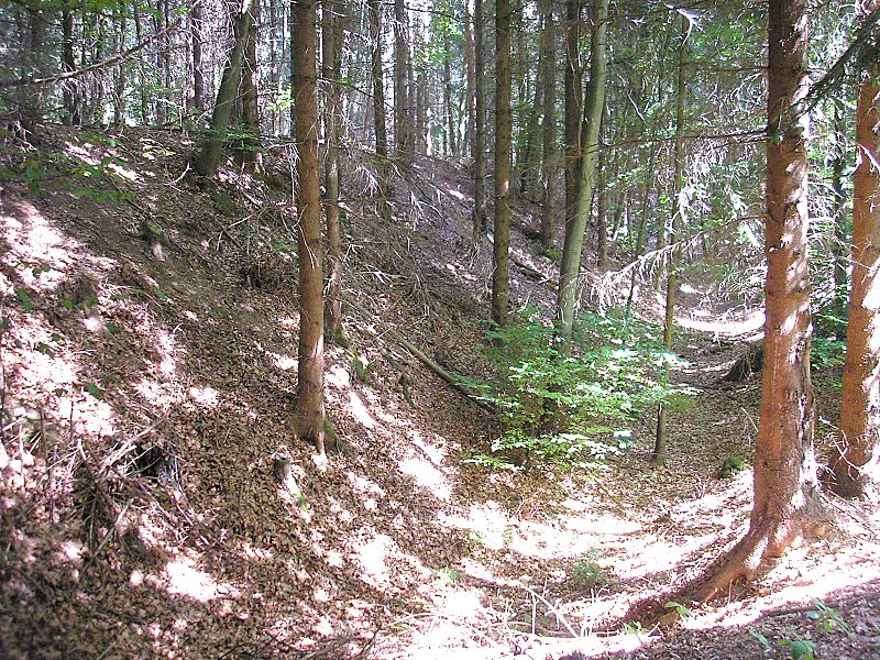 Early Middle Ages hill fort near Schorn (Pöttmes, Landkreis Aichach-Friedberg, Bavaria, Germany). The western earthworks, looking south